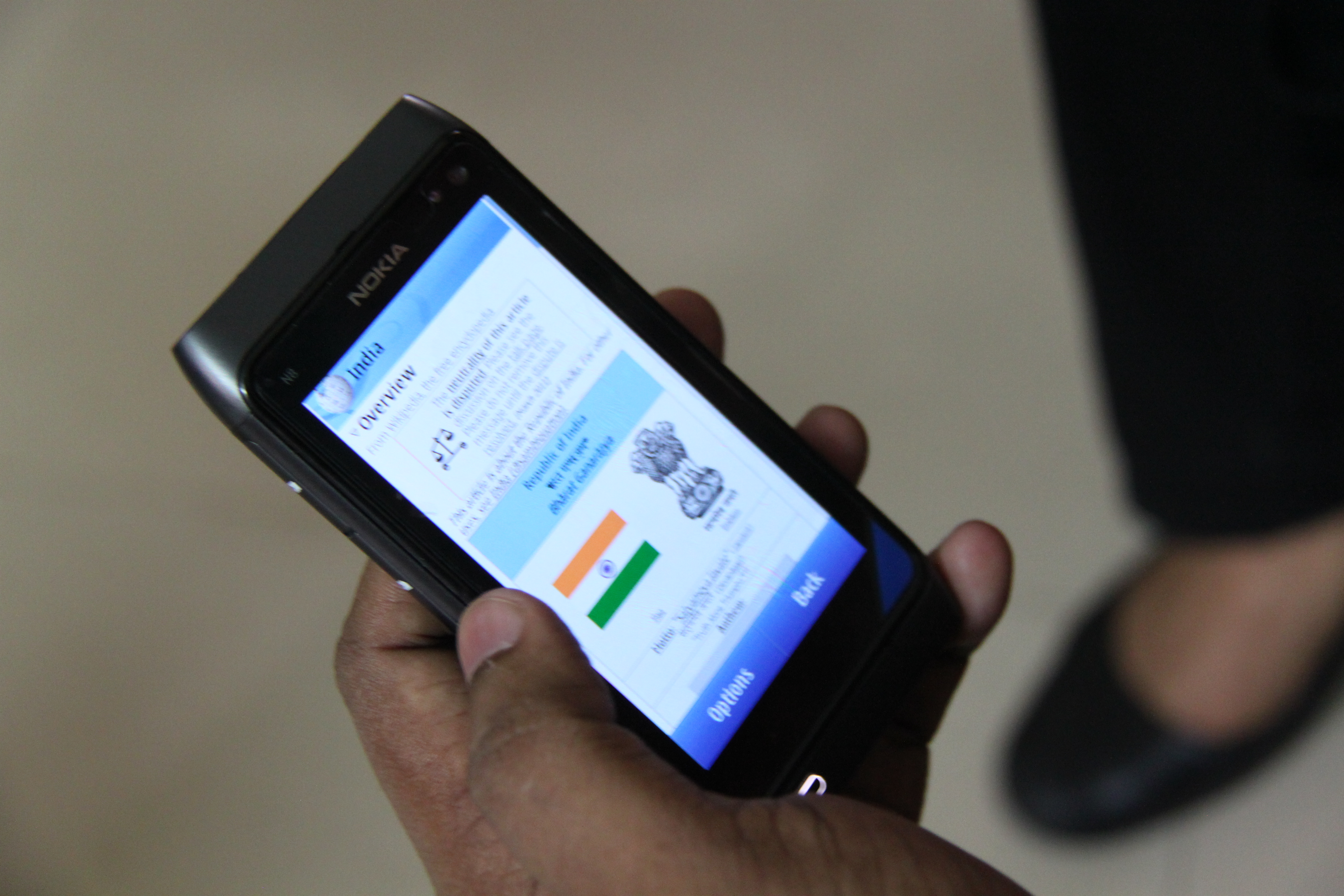 Wikipedia India on Nokia phone